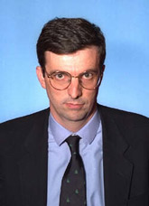 Claudio Burlando in 1996